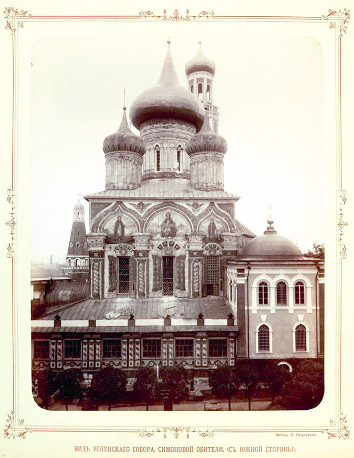 Simonov Monastery (Симонов монастырь) in Moscow. Uspensky Cathedral)